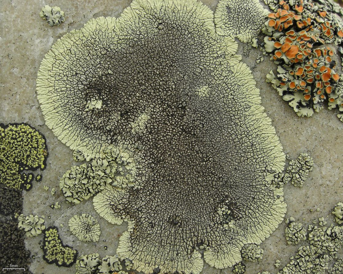 Dimlaena oreina (Ach.) Norman Rhizoplaca chrysoleuca (Sm.) Zopf 20090624.14 & 59 Mount Stearns, Willmore Wilderness, Alberta (Also a few species of Rhizocarpon in the bottom left.)